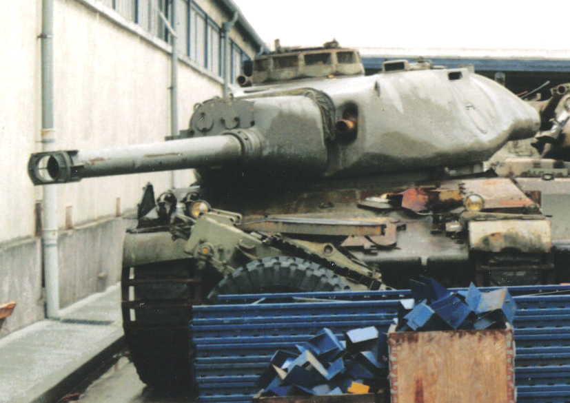 Picture of the AMX 30 ACRA tank prototype at the Saumur Tank Museum